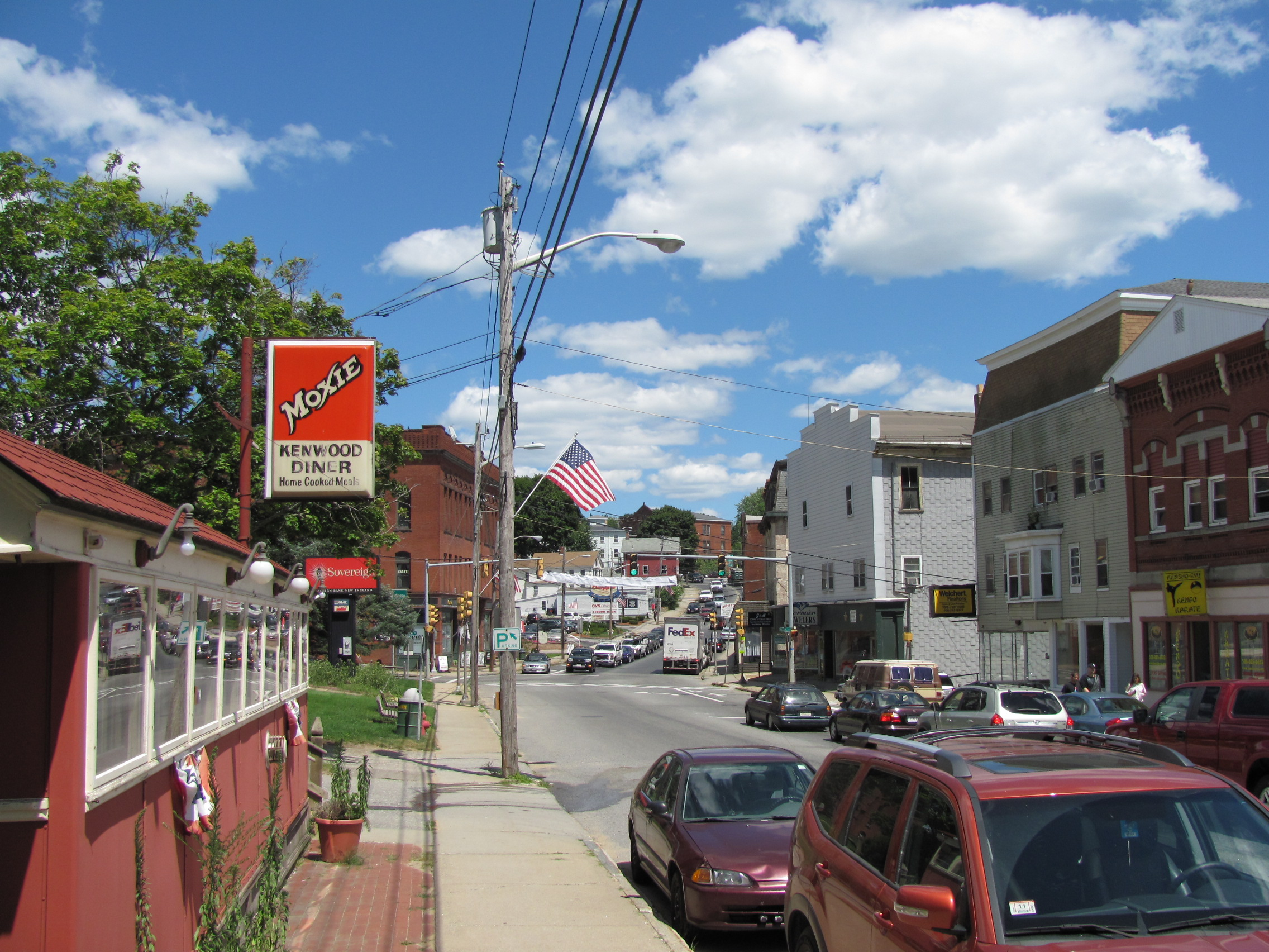 Main Street, Spencer Massachusetts